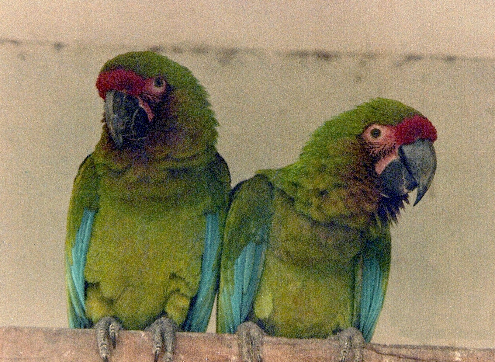 Couple of Ara militaris bolivianus (= Ara militaris boliviana) photographed in 1984.